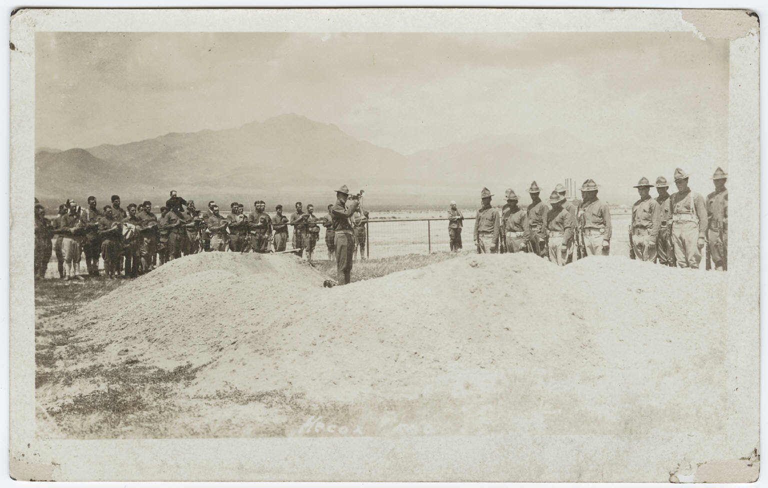 Postcard or print of a photo taken during the Mexican Revolution.